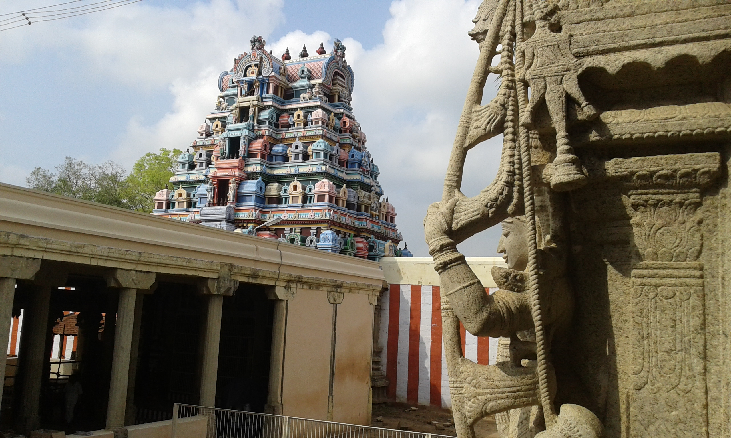 Srivaikuntam